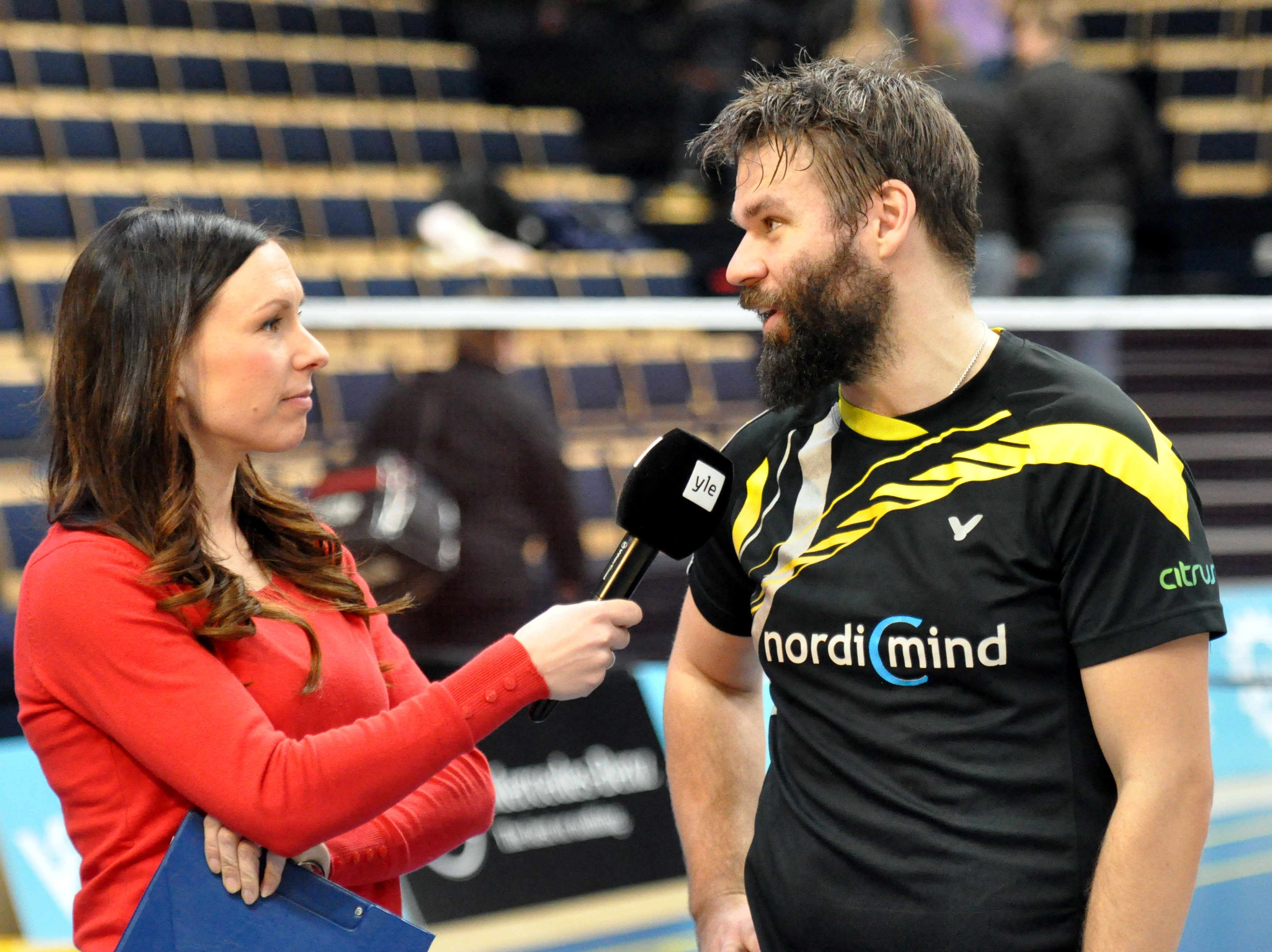 Journalist Petra Manner & badminton player Ville Lång.